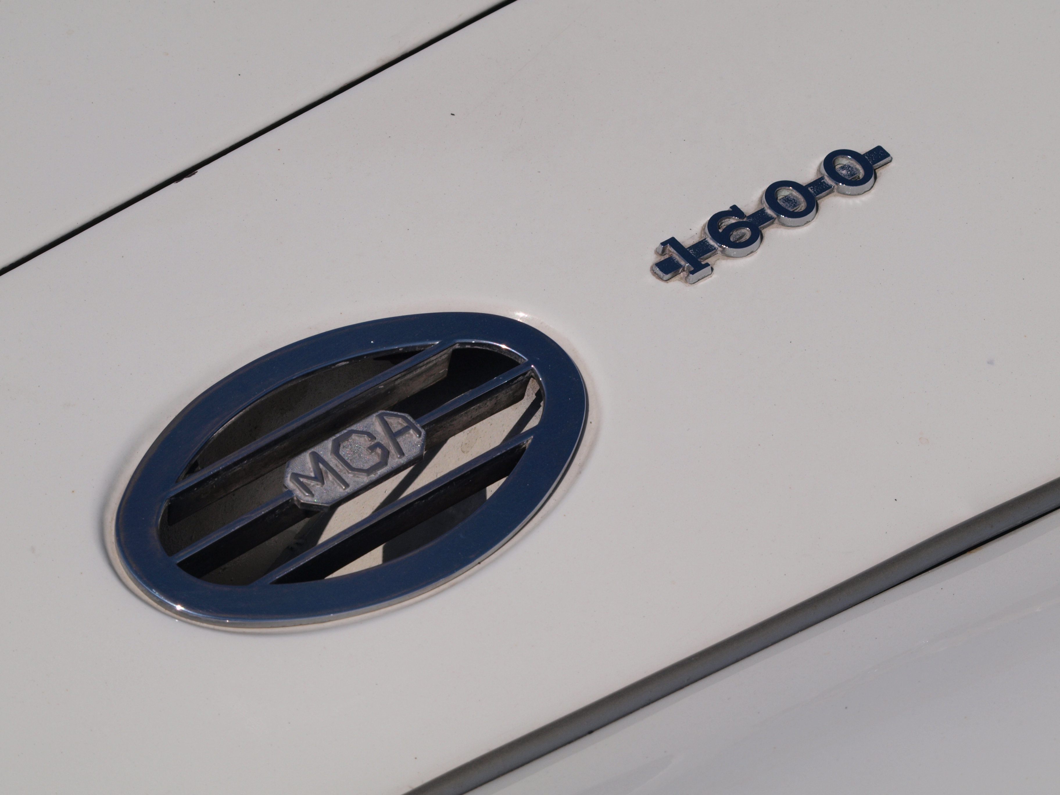 Photographed at the Hyacintenrit 2010, The Netherlands.